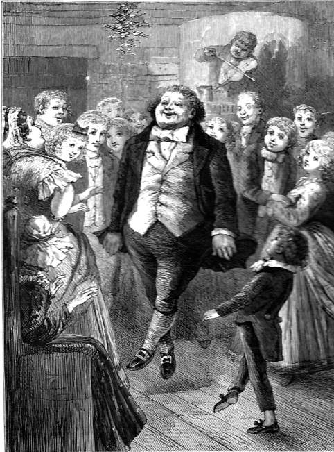 Mr. Fezziwig’s Ball Wood engraving by Sol Eytinge from A Christmas Carol by Charles Dickens. Edition title: "A Christmas Carol in Prose: being a ghost story of Christmas", publisher: Ticknor and Fields (Boston), 1869, Diamond Edition.